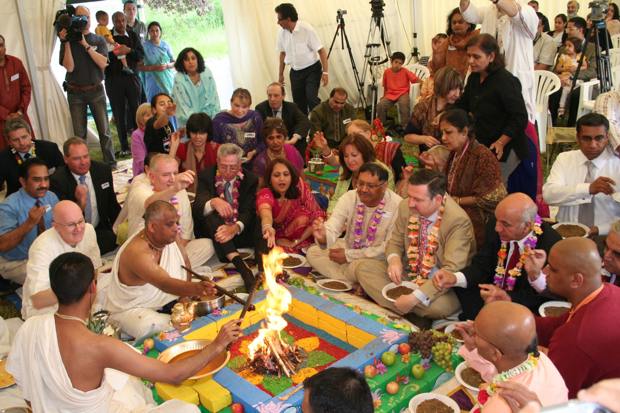 Yajna is a ritual before Agni, the fire deity. Sacrifices are made into the fire, as above. Sacrificial items include ghee (butter), grains, incense, campor and other items each symbolically signifying something from the scripts of Hinduism. Puja, pooja, prayer, India